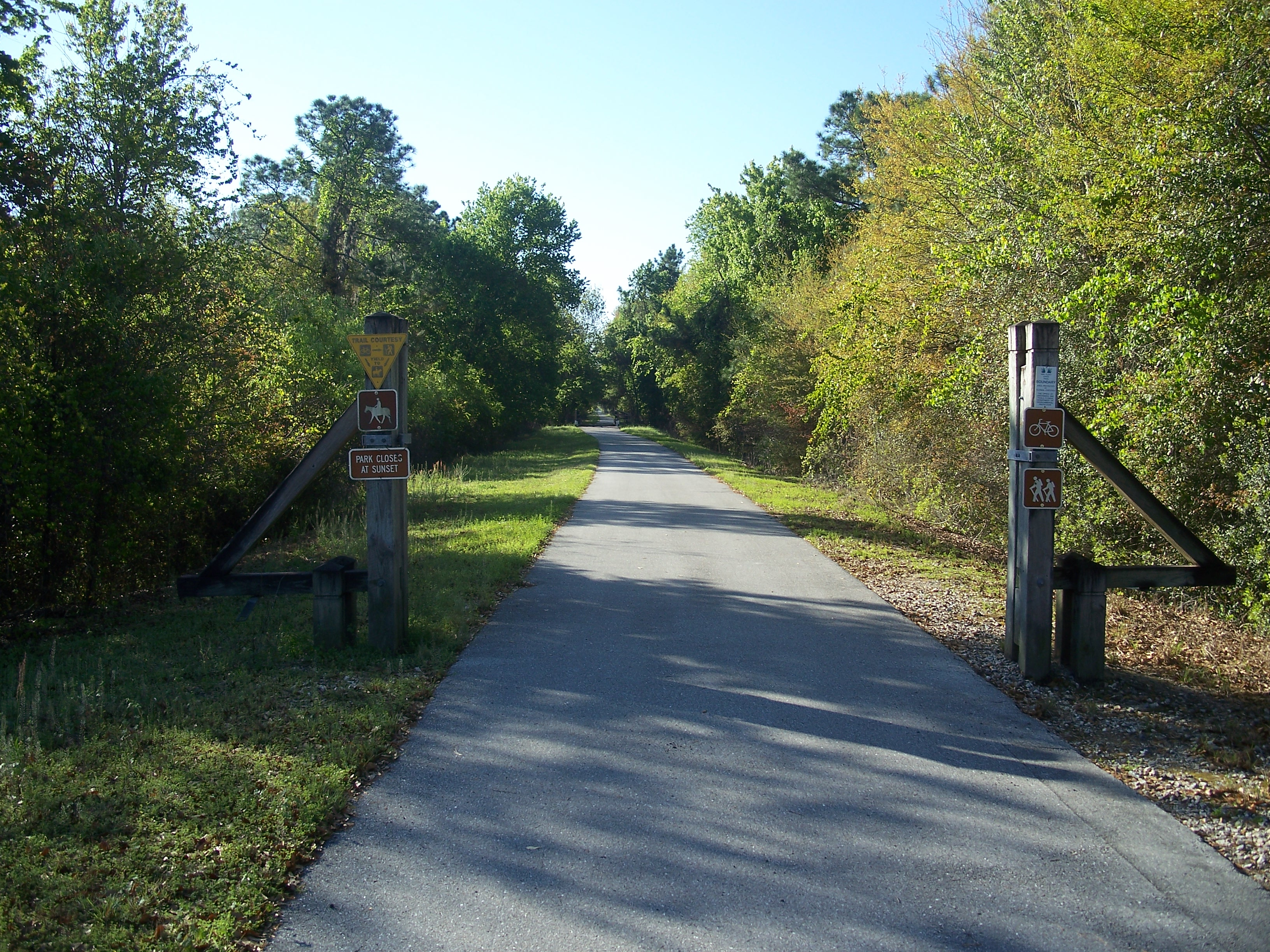 Polk County, Florida: General James A. Van Fleet State Trail: Green Pond trailhead